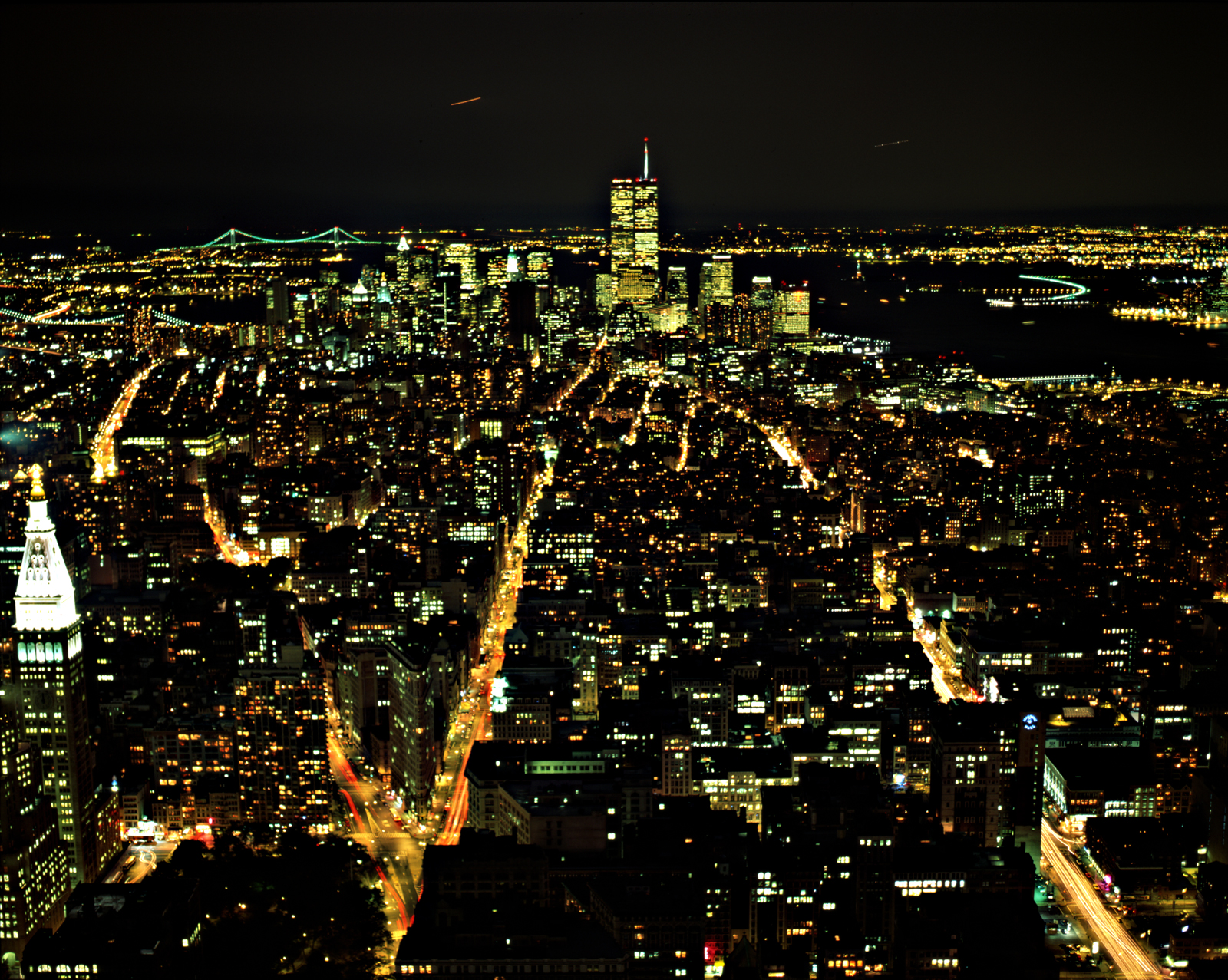 New York City on a clear December 1998 night from the Empire State Building, from the Flatiron Building to the Twin Towers.